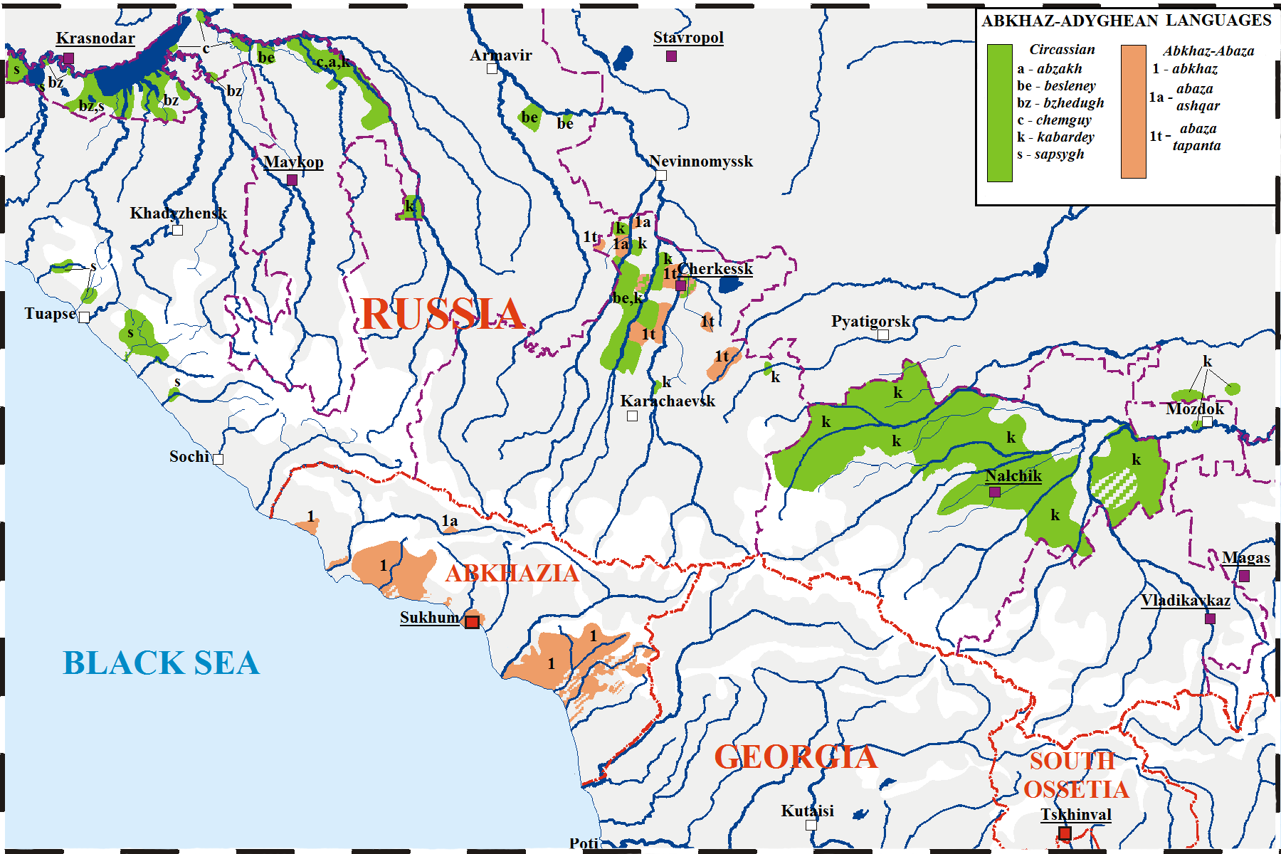 Circassian in Russia